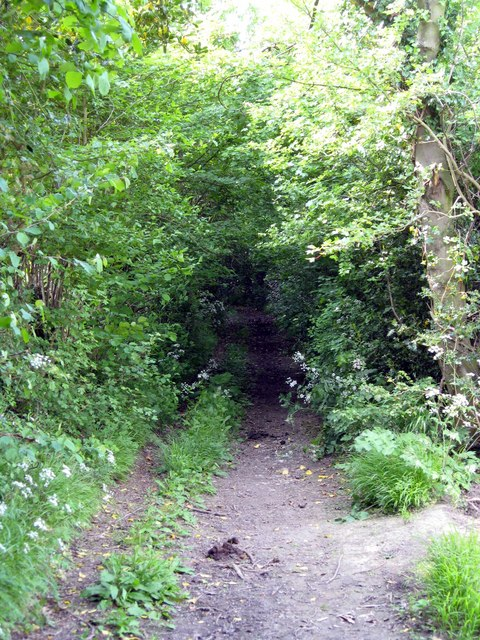 Green Lane near Longley Green Substantially overgrown, but still used daily by horse riders and walkers, this lane is impassable to road vehicles due to surface damage at one end.